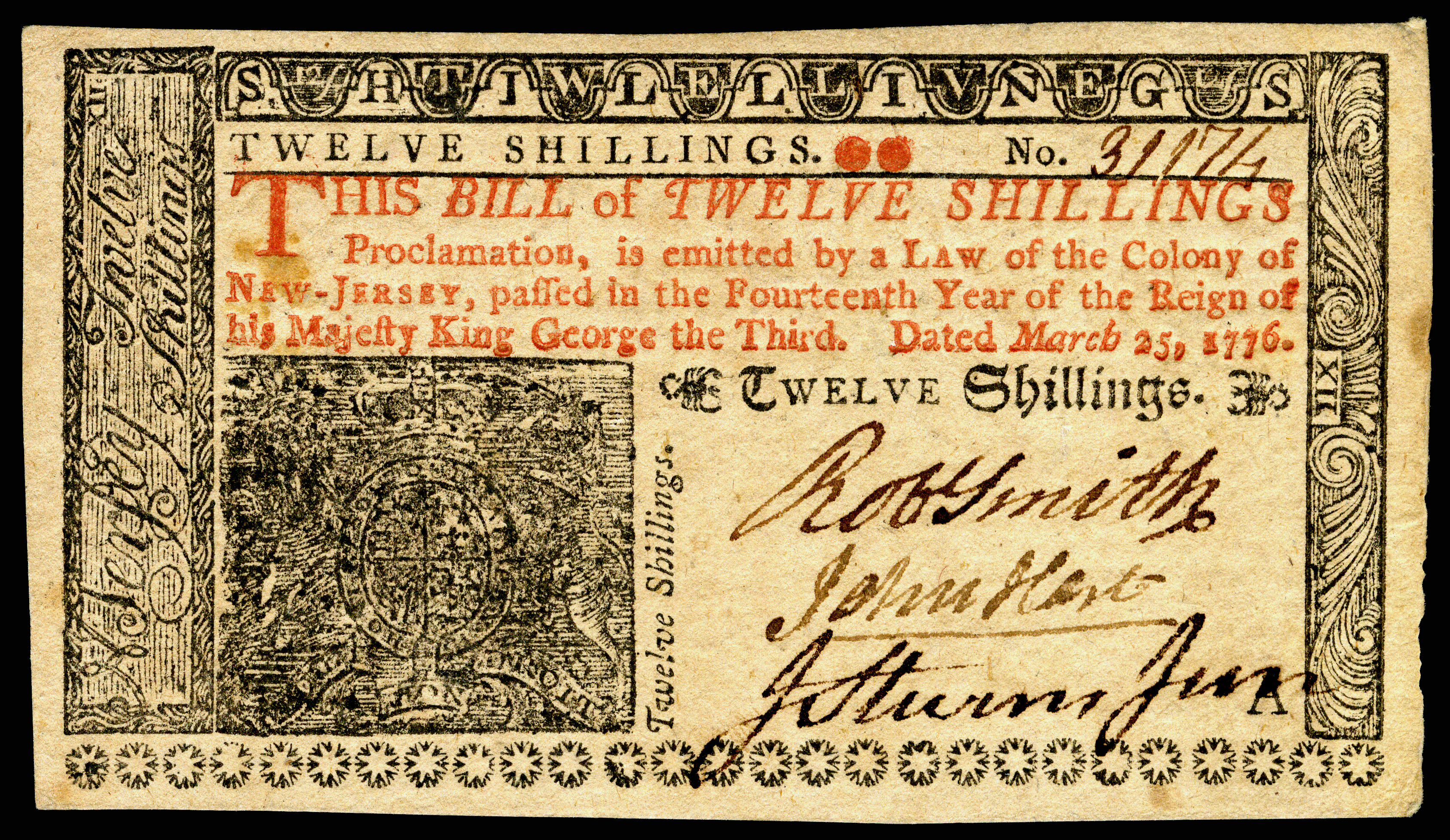 12s Colonial currency from the Province of New Jersey. Signed by Robert Smith, John Hart, and John Stevens, Jr.. (Friedberg Colonial ref# NJ-179).